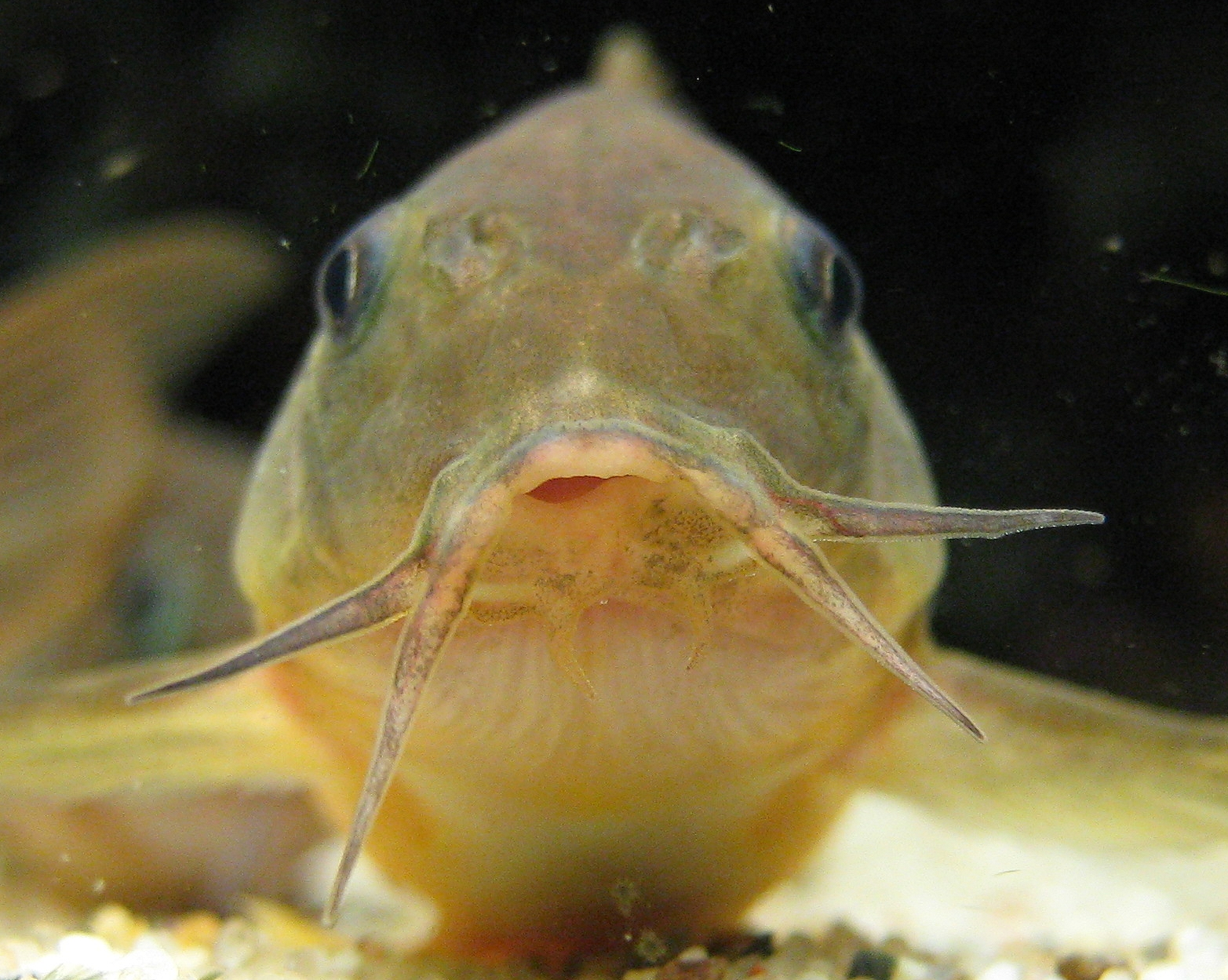 Corydoras aeneus barbels